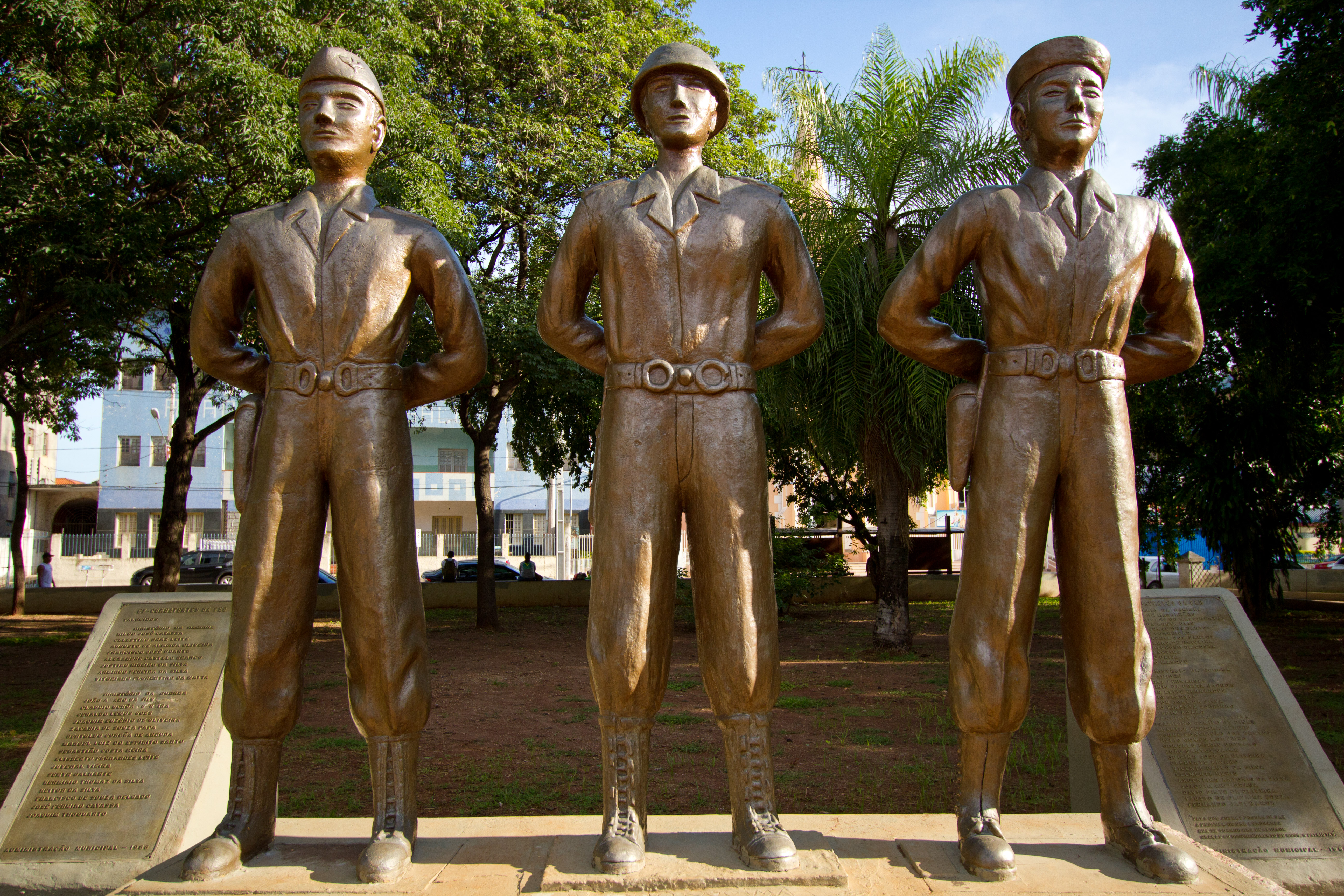 Monument to veterans of World War II, in Corumbá, Mato Grosso do Sul, Brazil